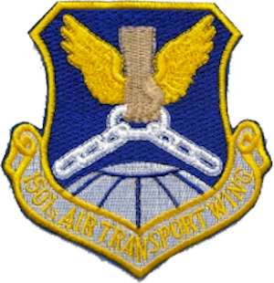 Emblem of the USAF 1501st Air Transport Wing (MATS)